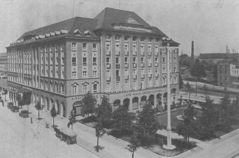 Hotel "Haus Oberschlesien" (transl.: Upper Silesia House) in Gleiwitz, Upper Silesia, Germany